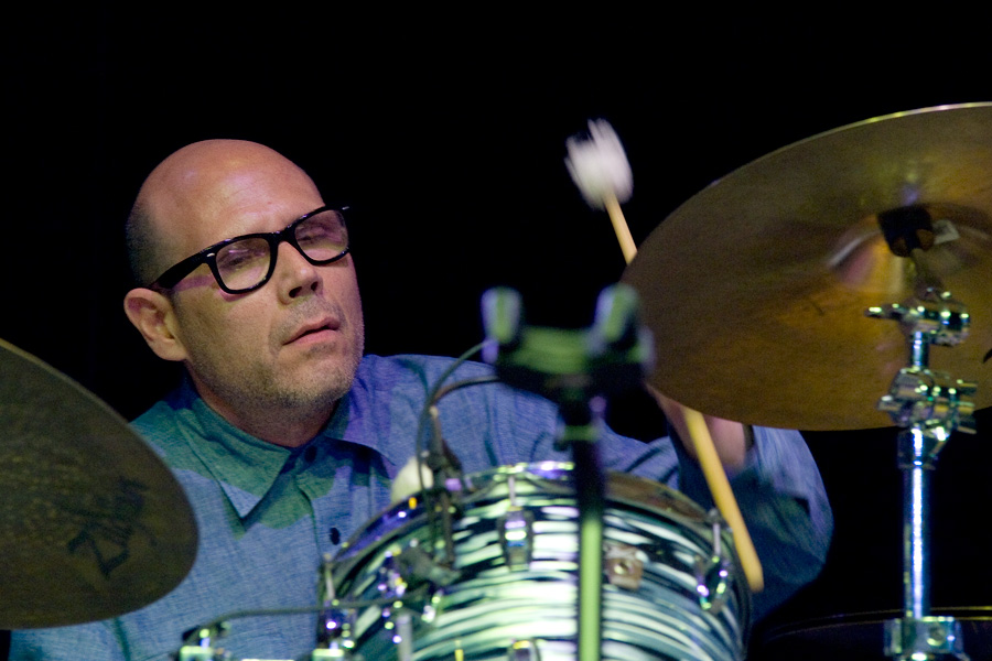 Anton Fier, moers festival 2011